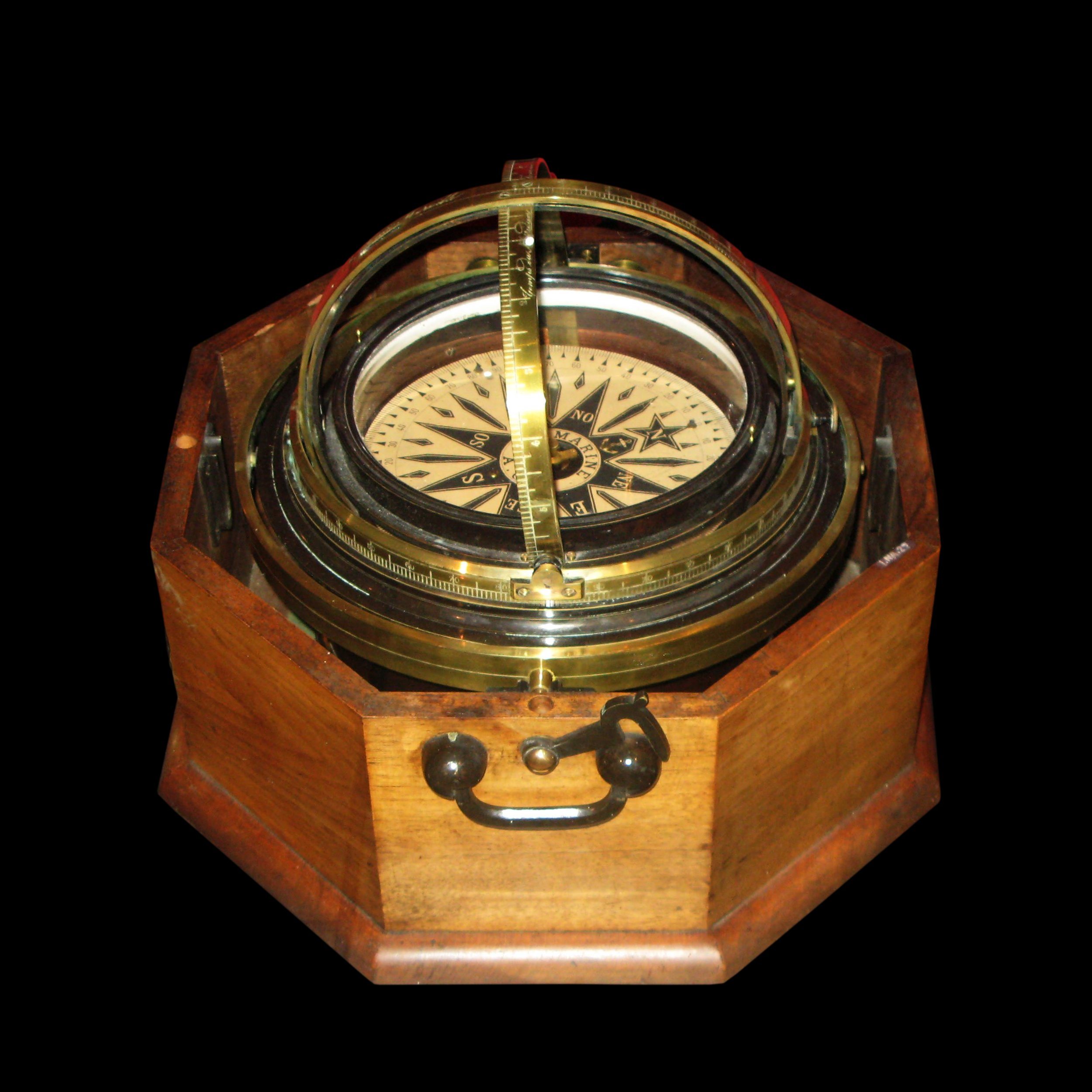 Compass On display at Toulon naval museum